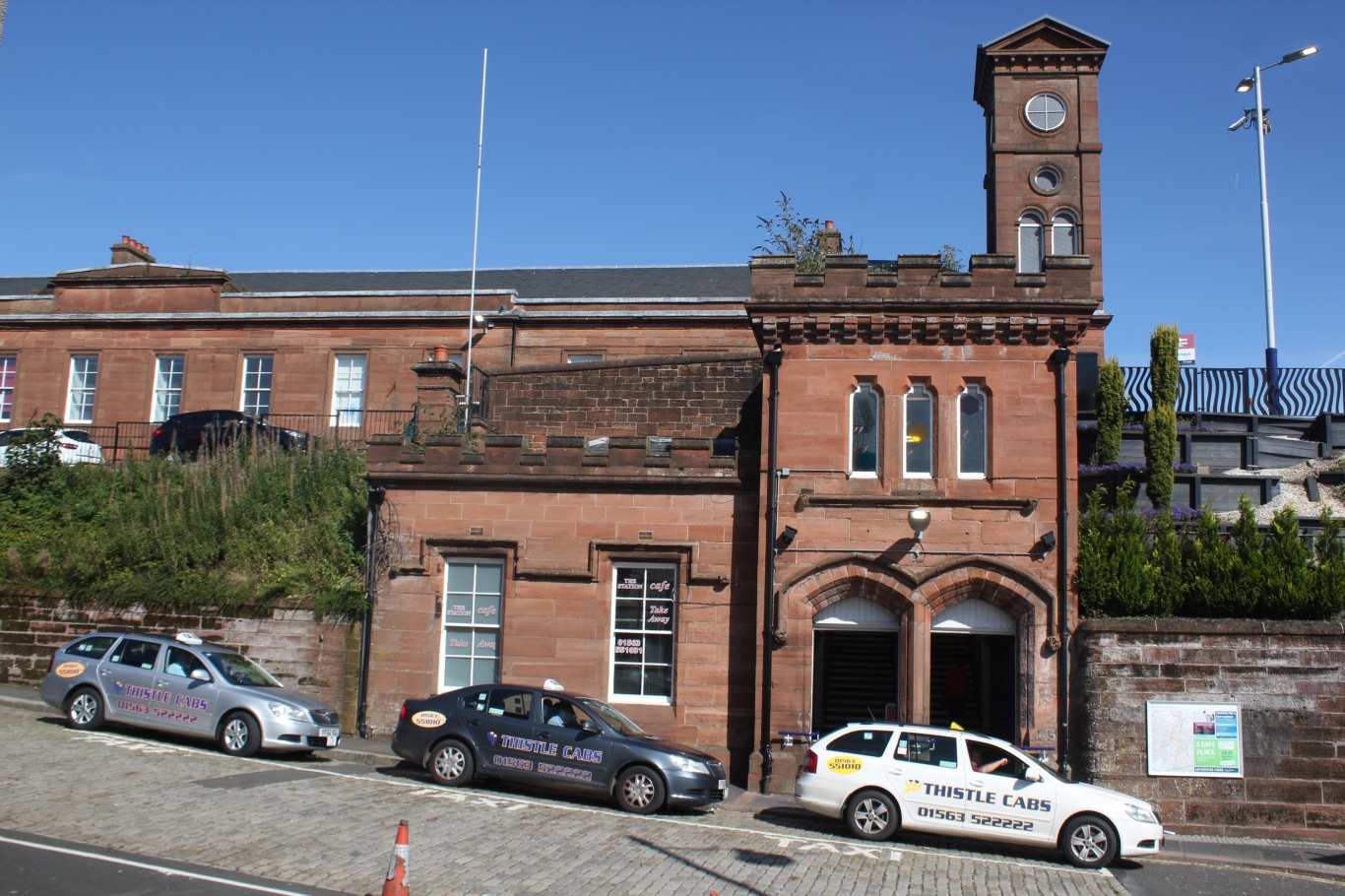 The entrance to the railway station at Kilmarnock is through a subway, however 'step-free' access can be had by continuing up the hill to the left and following the zigzag to reach the clock tower.